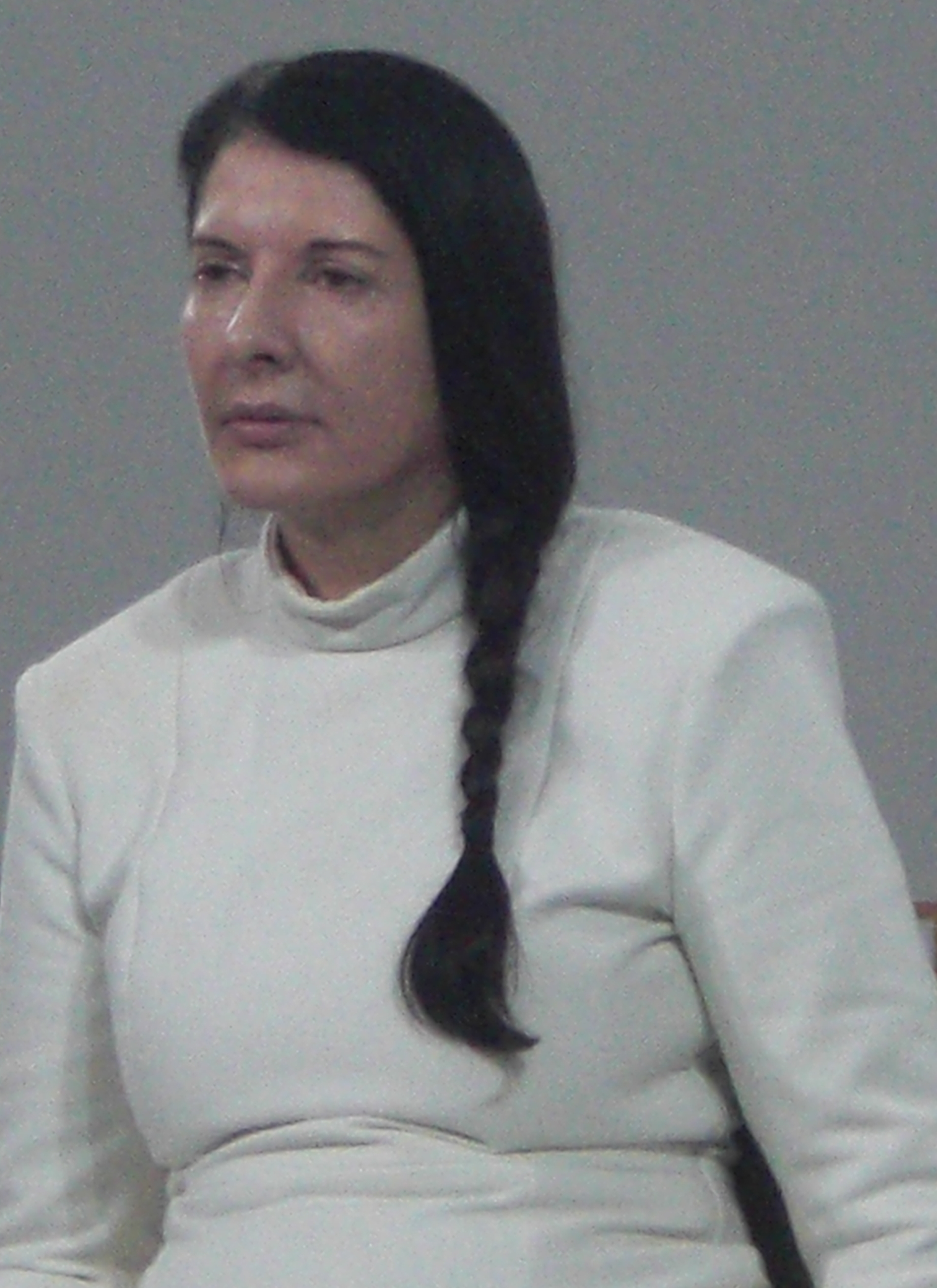 Marina Abramovic performing "The Artist is Present" at the Museum of Modern Art, May 2010.